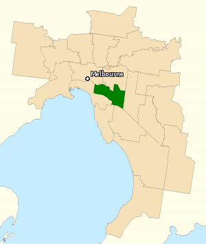 This image incorporates data that is: © Commonwealth of Australia (Australian Electoral Commission) 2009 Division of Higgins 2010